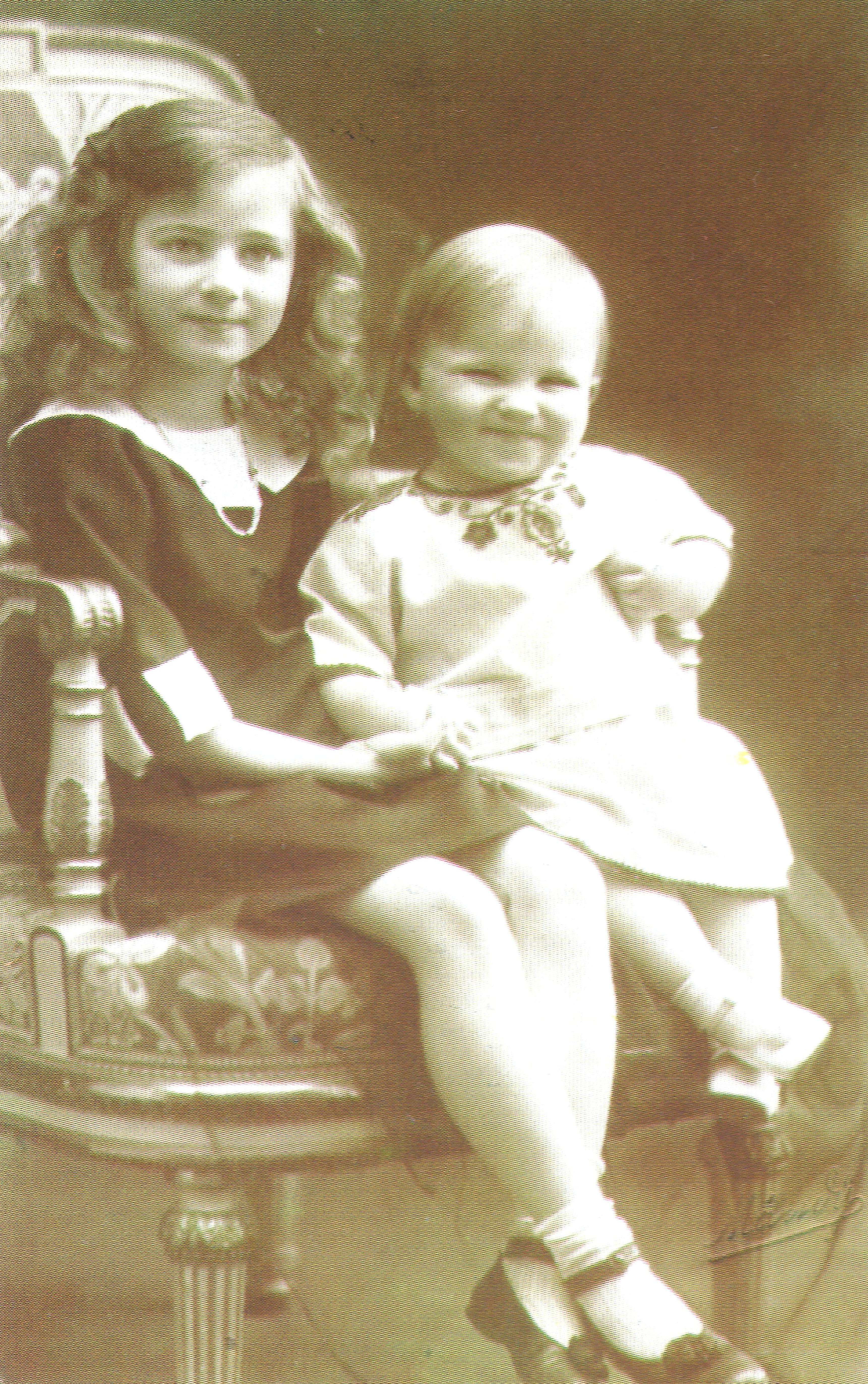 A photograph of Princess Ileana of Romania and her brother, Prince Mircea.